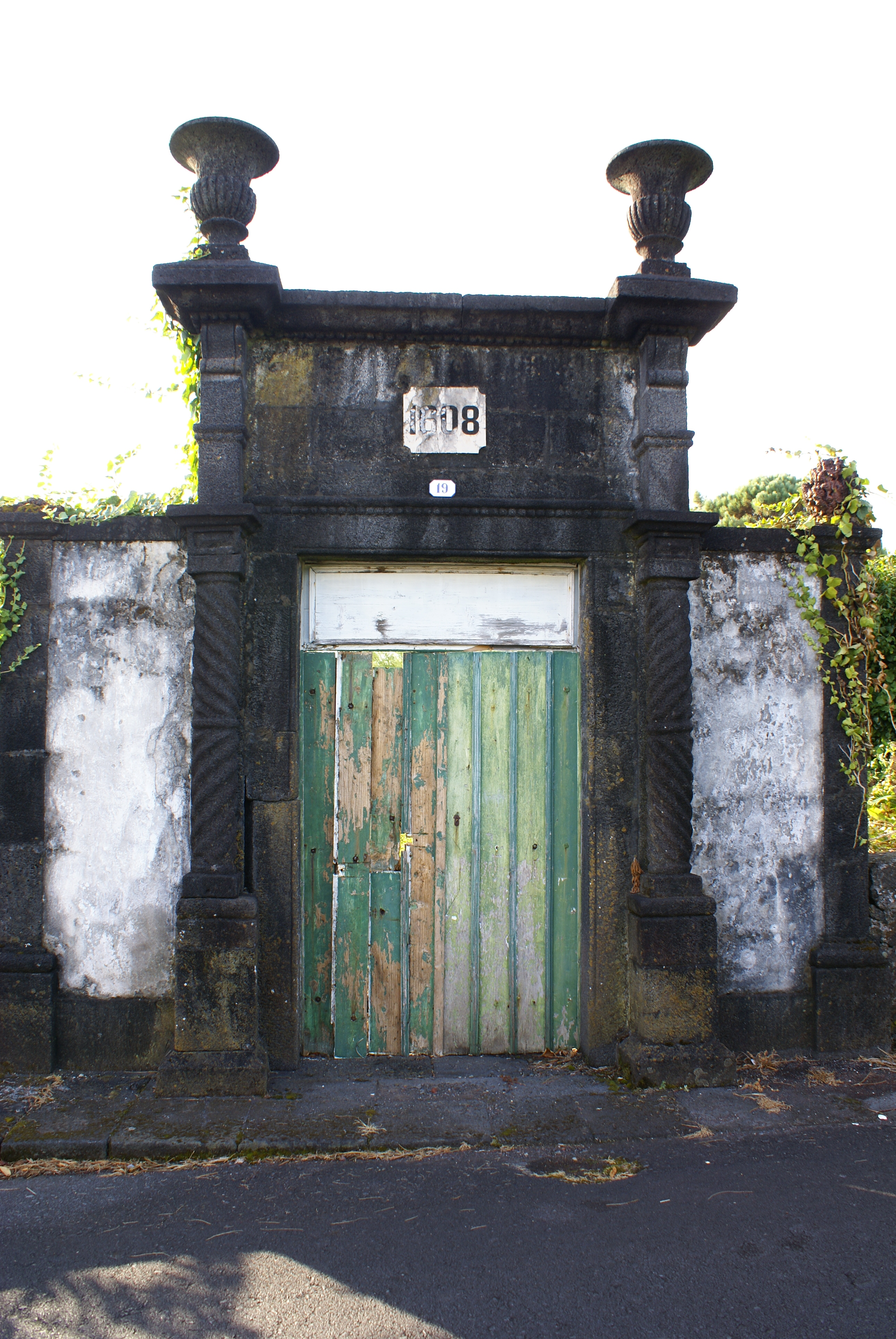 Capela de Santo António da Furna, Baía, São Roque do Pico, na ilha do Pico, nos Açores